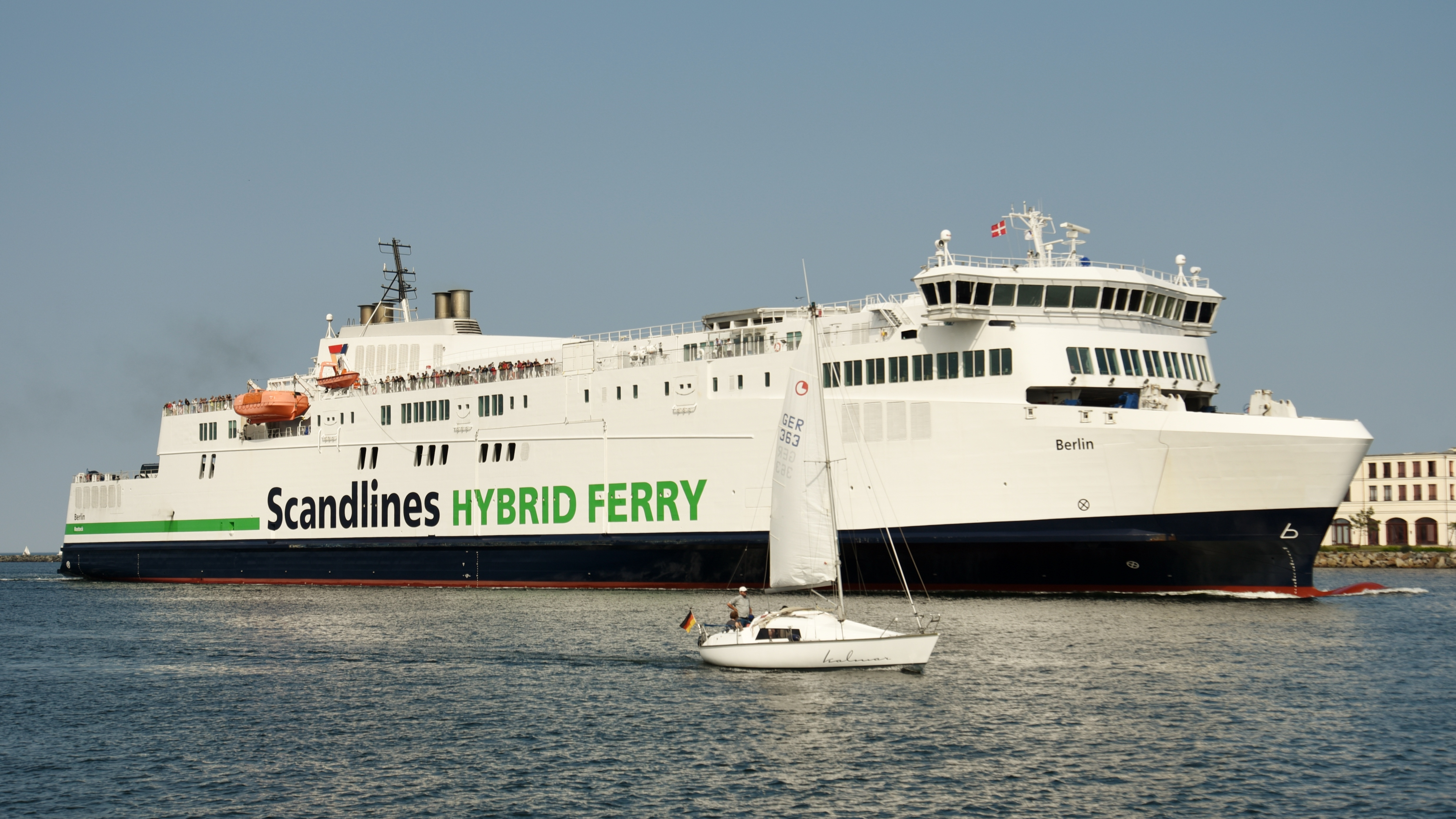 The Scandlines ferry Berlin passing through Warnemünde on arrival at Rostock, Germany, from Gedser, Denmark